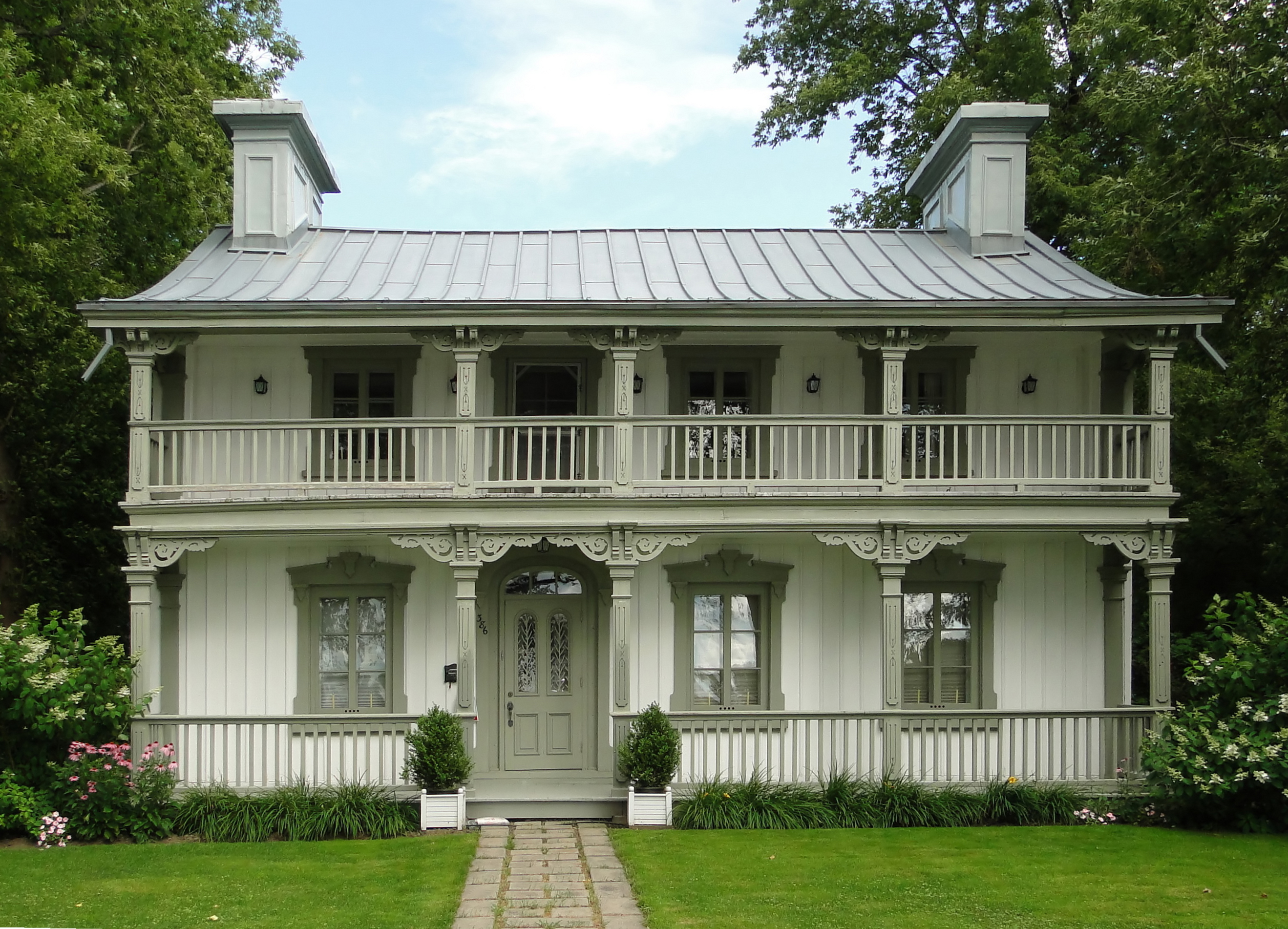 Quintal-Quesnel House (1727-1750), Boucherville, province of Quebec, Canada